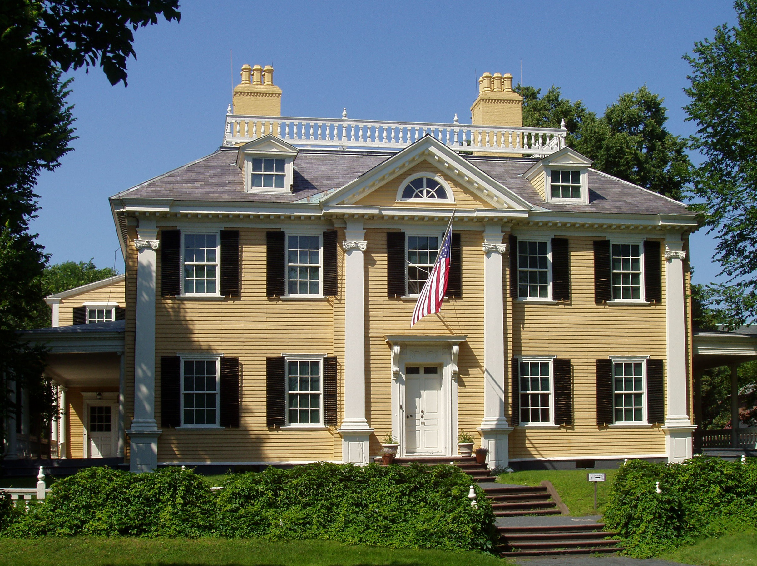 Longfellow National Historic Site, also known as the Vassall-Craigie-Longfellow House, in Cambridge, Massachusetts. This house was George Washington's headquarters for 10 months in the Revolutionary War, and noted poet Henry Wadsworth Longellow's house for nearly fifty years.